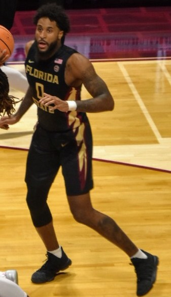 Phil Cofer of the Florida State Seminoles, in a game against the Virginia Tech Hokies.